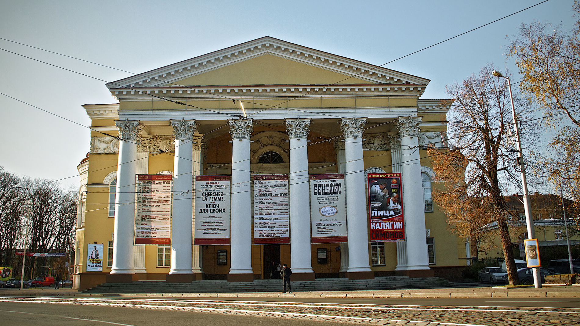 Kaliningrad Theatre of Drama